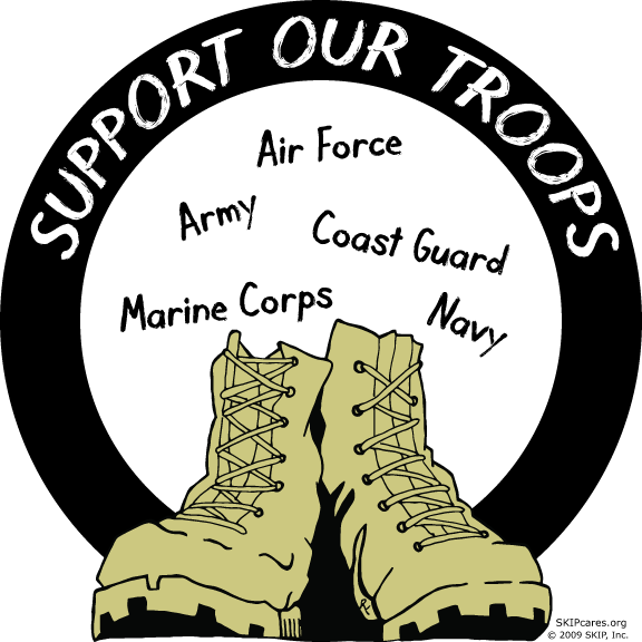 Special Kindness In packages, Inc. (SKIP) Logo